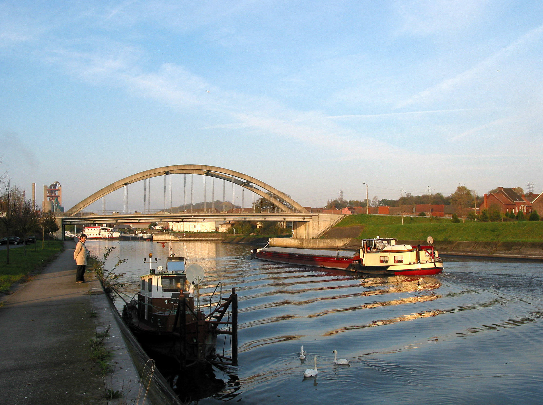 Antoing (Belgium), the ships on the Escaut river.